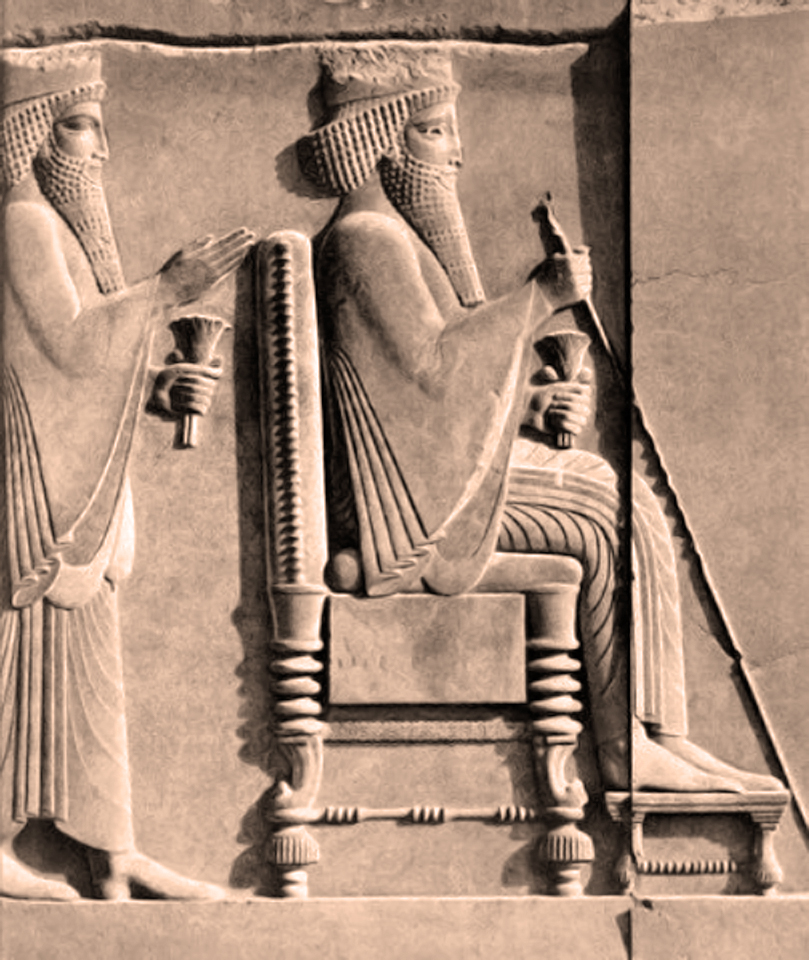 Persepolis, Iran - Apadana Audience relief (found at the Treasury). Detail showing the king in the throne.